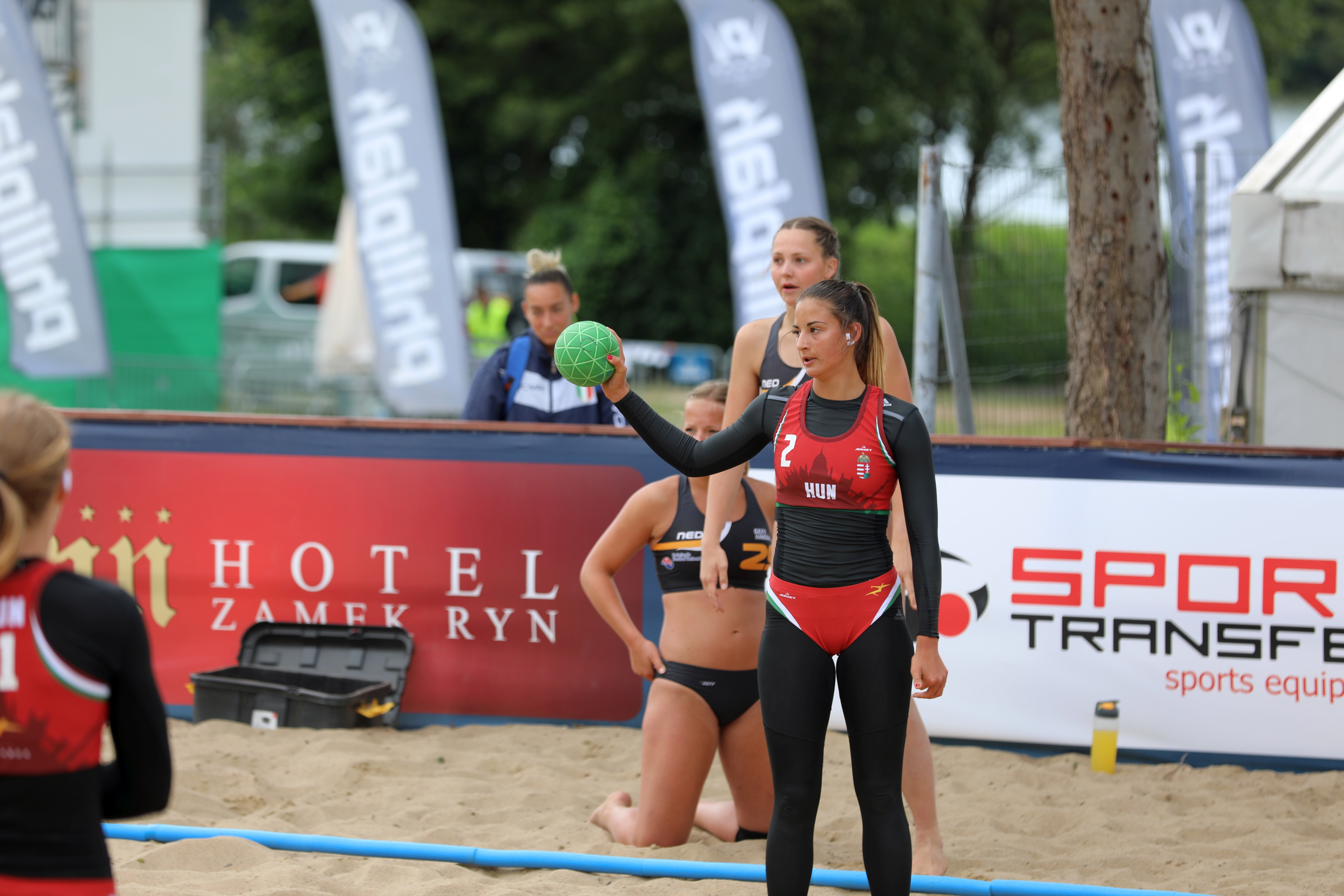 Beach handball Euro; Day 3: 4 July 2019 – Women Main Round Group I – Hungary-Netherlands 0:2 (20:23, 14:21)